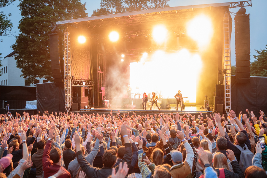 Phoenix at the main stage in the Vigeland Park. The concert was part of Piknik i Parken and took place on 16. June 2018 in Oslo. Lineup:Thomas Mars (vocal)Deck d'Arcy (bass guitar and keyboard)Laurent Brancowitz (guitar)Christian Mazzalai (guitar)Unidentified (drums)Unidentified (keyboard)